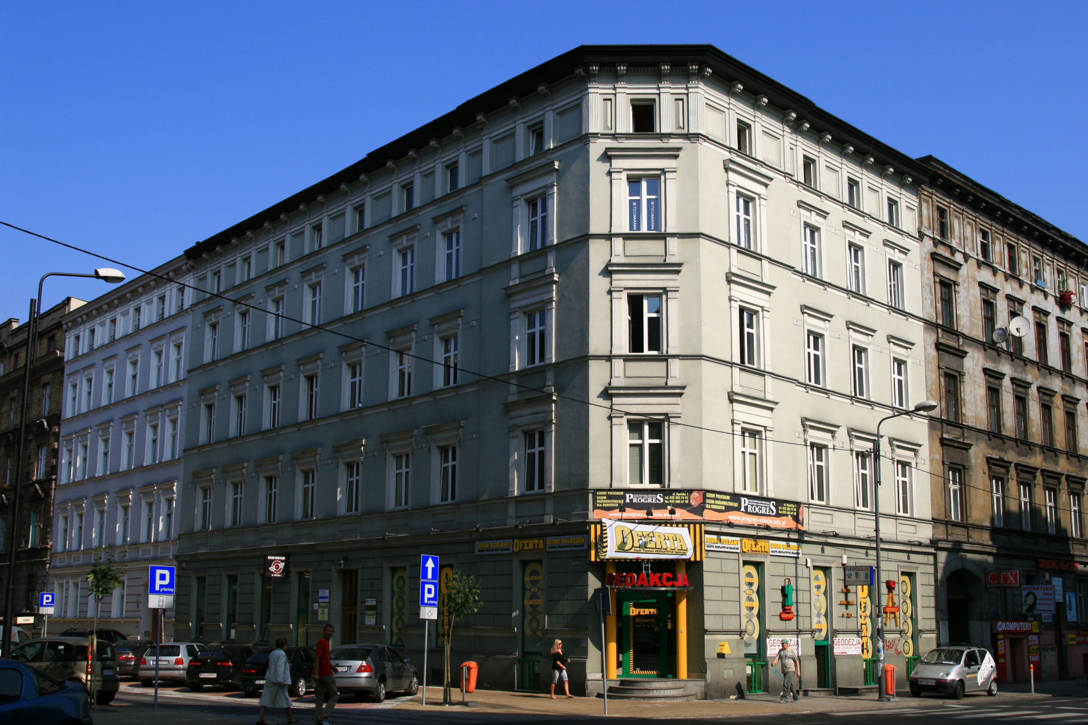 Tenement house (Opolska Street) in Katowice (Poland).